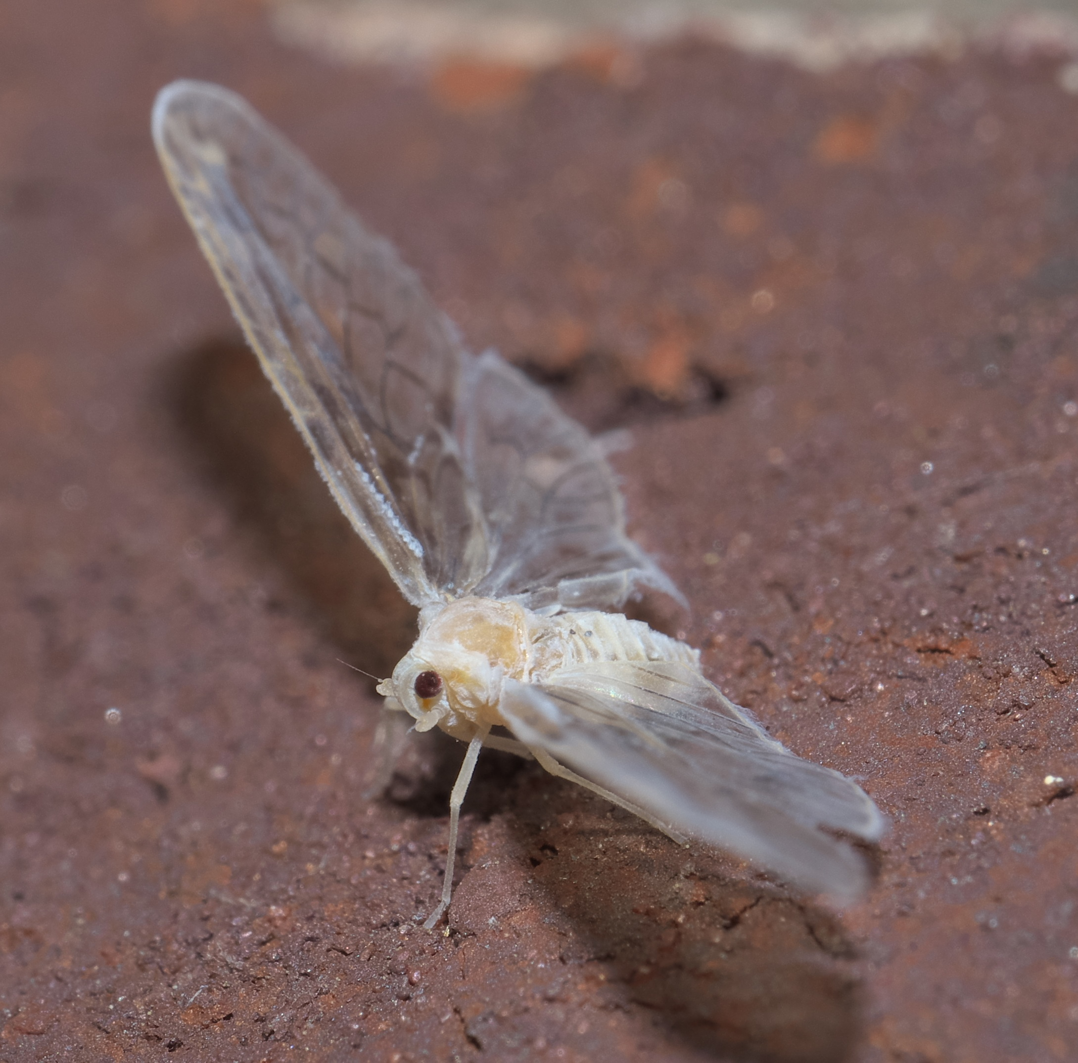 Paramysidia mississippiensis, Family: Derbid Planthoppers, ID Confidence: 98